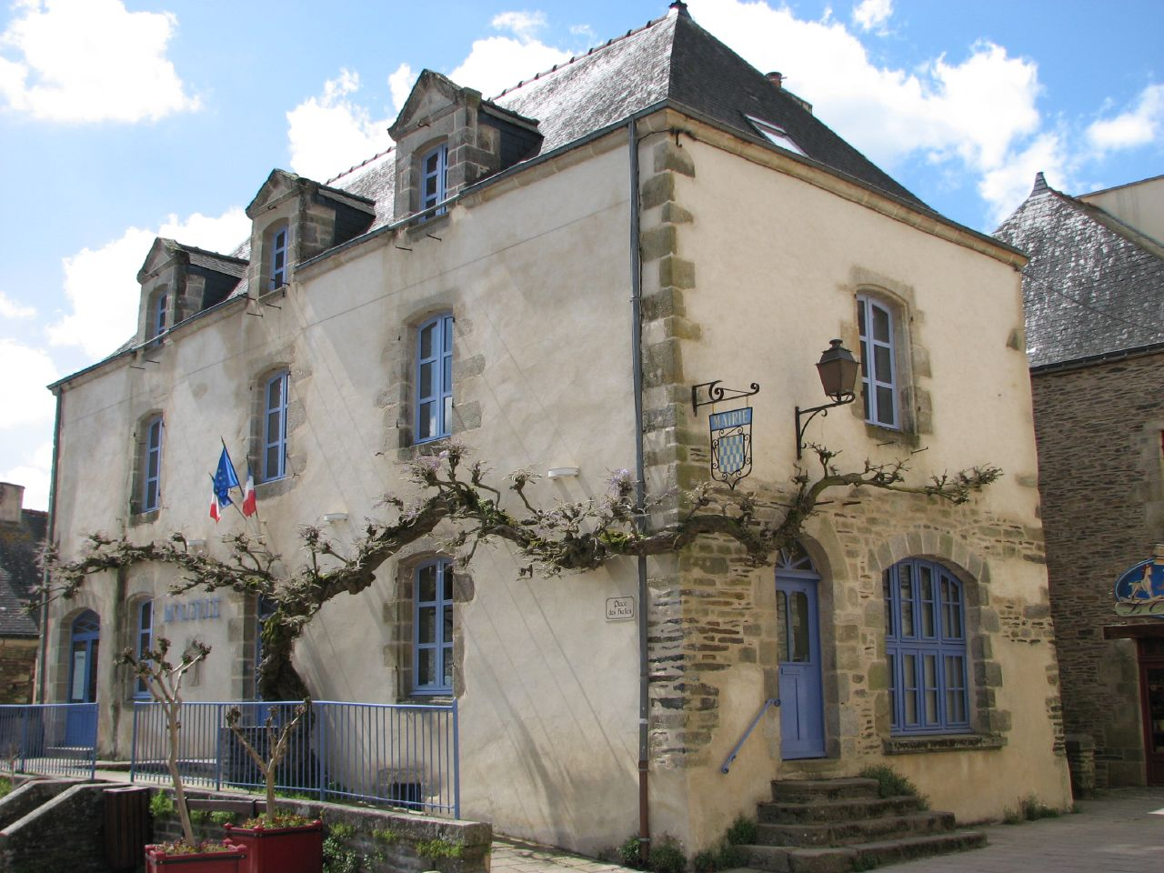 Town hall of Rochefort-en-Terre